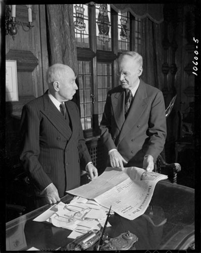 Title: Colonel J.B. McLean and Horace Hunter with a copy of The Financial Post Date: November 2, 1947 Creator: Gilbert A. Milne Format: Black and white negative